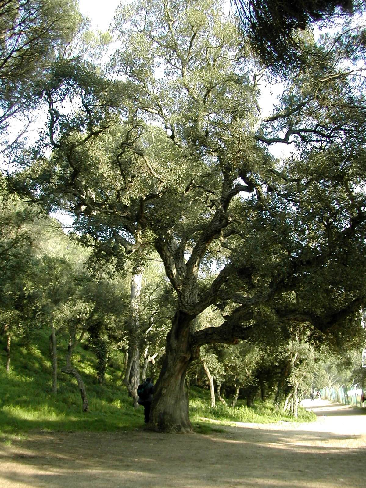 Cork Oak of more than 18 m high located in front of Tossa de Mar (Catalonia) municipal kennels.